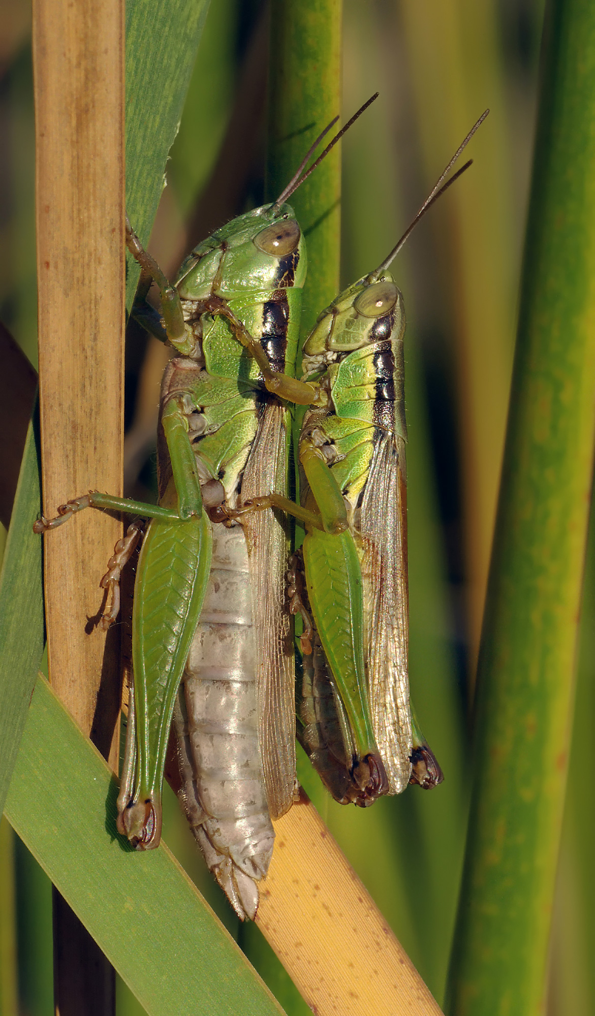 Locust. Female (left) and male (right). This picture was taken in Osaka (Japan) at sunset.